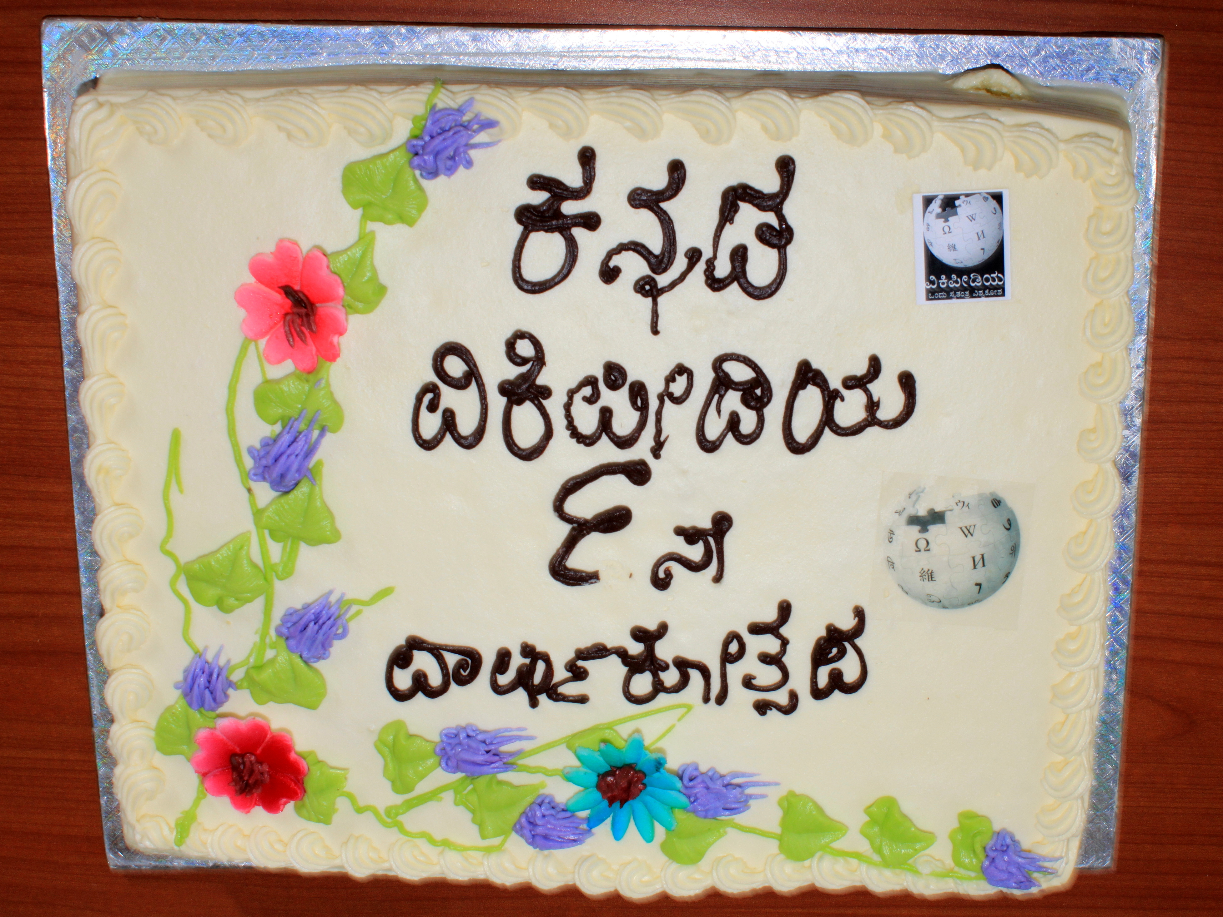 Kannada Wiki 9th Annivesary Cake, CIS , Bangalore